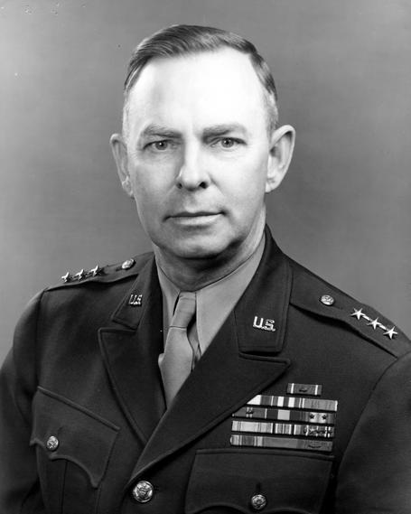 Lieutenant General Raymond S. McClain. Official photo of US Army soldier, ineligible for copyright